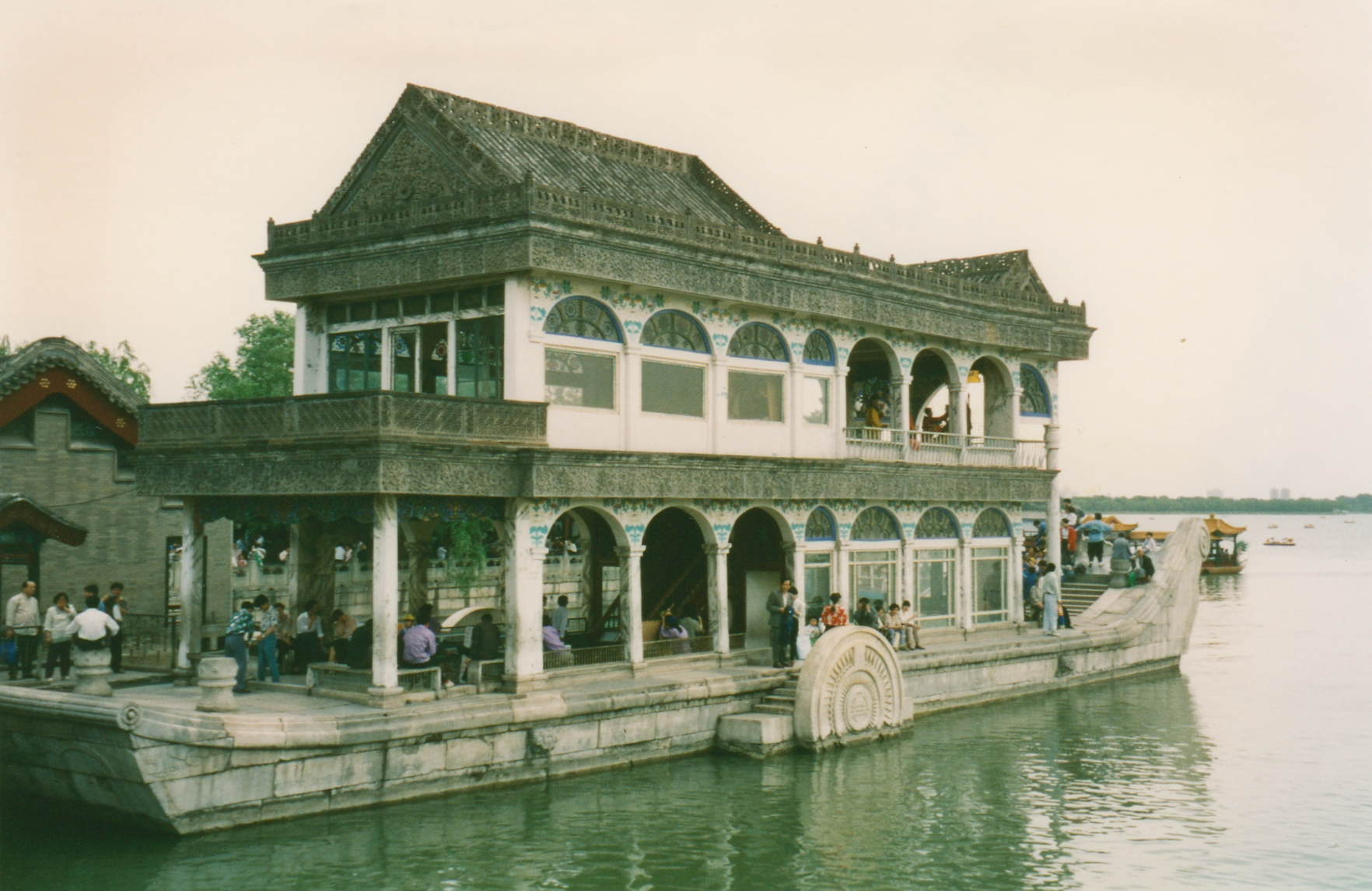 The Summer Palace is a palace in Beijing, China. The Summer Palace is mainly dominated by Longevity Hill and the Kunming Lake. It covers an expanse of 2.9 square kilometers, three quarters of which is water. Longevity Hill is about 60 meters high and houses many buildings positioned in sequence. The front hill is rich in the splendid halls and pavilions, while the back hill, in sharp contrast, is quiet with natural beauty. The central Kunming Lake covering 2.2 square kilometers was entirely man made and the excavated soil was used to build Longevity Hill. In the Summer Palace, one finds a variety of palaces, gardens, and other classical-style architectural structures. The Marble Boat, also known as the Boat of Purity and Ease is a lakeside pavilion on the grounds of the Summer Palace in Beijing, China. It was first erected in 1755 during the reign of the Qianlong Emperor. The original pavilion was made from a base of large stone blocks which supported a wooden superstructure done in a traditional Chinese design. (From Wikipedia